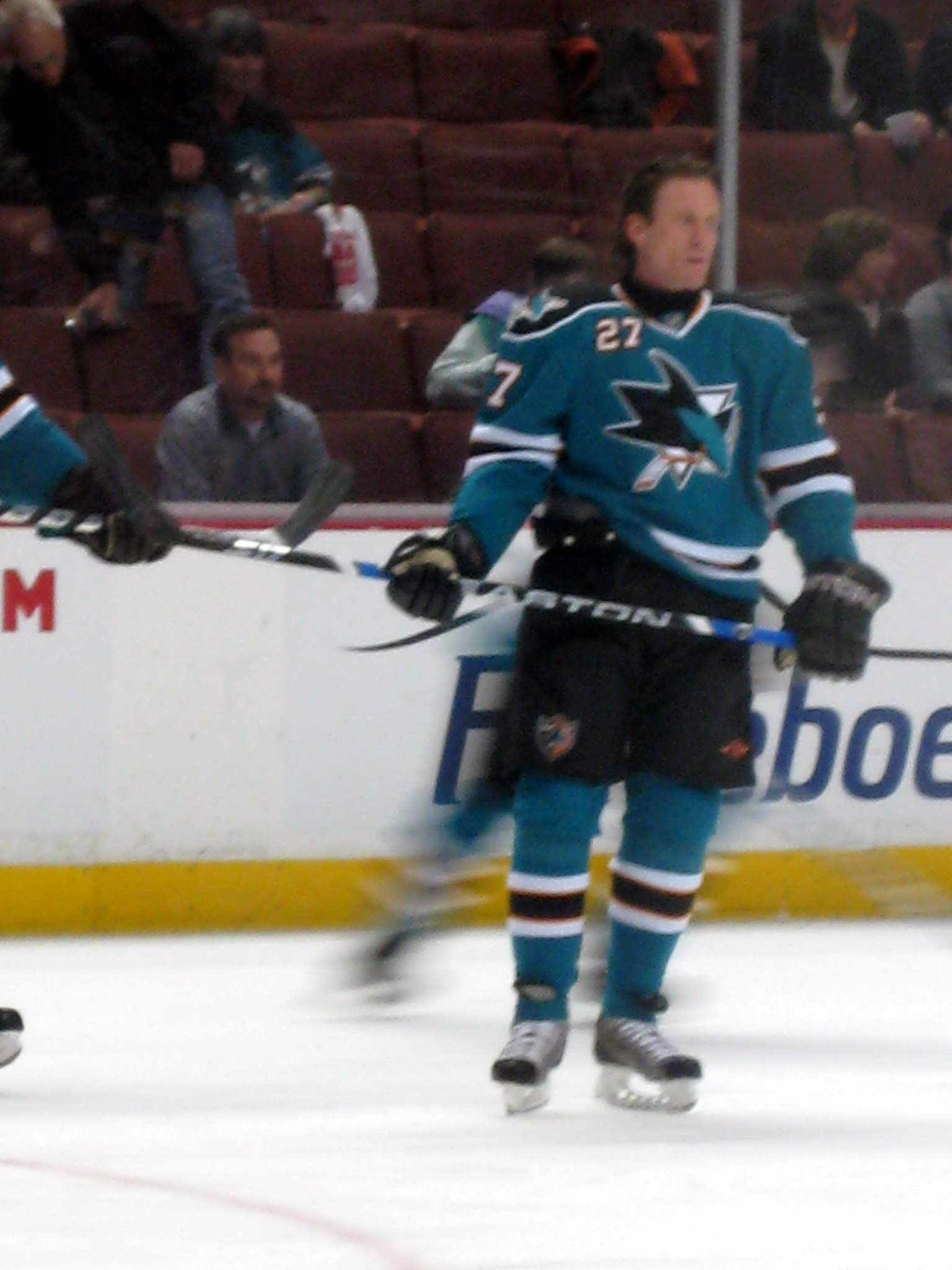 Jeremy Roenick in warmups before a game versus the Anaheim Ducks